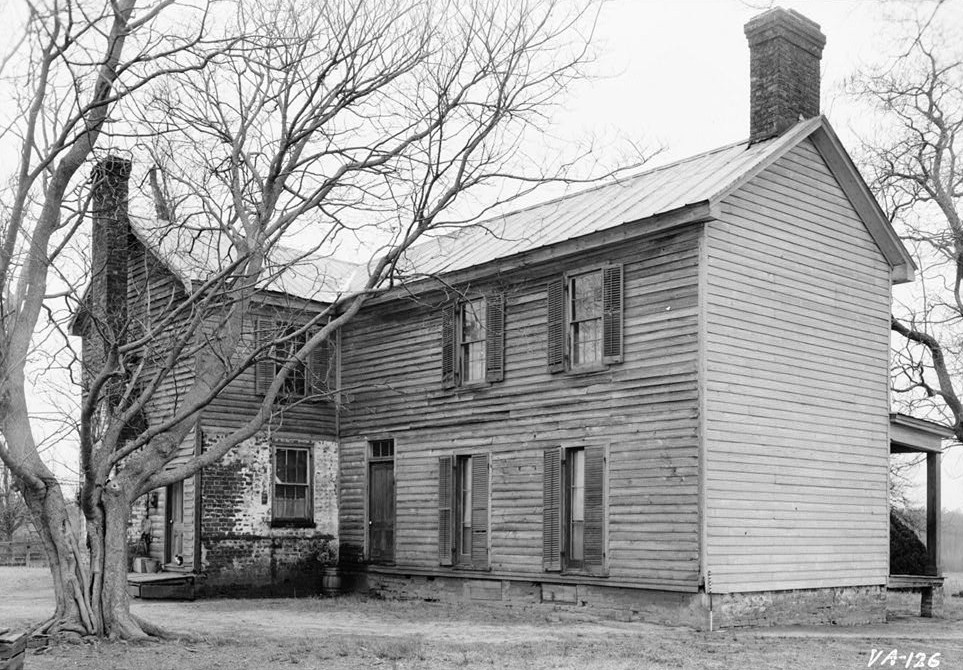 Criss-Cross, State Route 617 vicinity, New Kent vicinity (New Kent County, Virginia) cropped HABS VA,64-NEWK.V,1-5 This file comes from the Historic American Buildings Survey (HABS), Historic American Engineering Record (HAER) or Historic American Landscapes Survey (HALS). These are programs of the National Park Service established for the purpose of documenting historic places. Records consist of measured drawings, archival photographs, and written reports. When reusing please credit: Library of Congress, Prints & Photographs Division, VA-126 This tag does not indicate the copyright status of the attached work. A normal copyright tag is still required. See Commons:Licensing for more information. This work is in the public domain in the United States because it is a work prepared by an officer or employee of the United States Government as part of that person’s official duties under the terms of Title 17, Chapter 1, Section 105 of the US Code. See Copyright. Note: This only applies to original works of the Federal Government and not to the work of any individual U.S. state, territory, commonwealth, county, municipality, or any other subdivision. This template also does not apply to postage stamp designs published by the United States Postal Service since 1978. (See § 313.6(C)(1) of Compendium of U.S. Copyright Office Practices). It also does not apply to certain US coins; see The US Mint Terms of Use. This file has been identified as being free of known restrictions under copyright law, including all related and neighboring rights. Object location37° 30′ 10″ N, 77° 01′ 38″ W